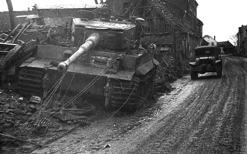 Photograph shows the Tiger I tank that knocked out the first M26 Pershing tank in World War II. After knocking out the M26, the Tiger I backed up to escape but became stuck on a rubble pile. The crew abandoned the tank. The action occurred on February 26, 1945. The M26 (still designated as a T26E3) was knocked out in an ambush at Elsdorf while overwatching a roadblock. The action was described as follows: “Fireball, for that was the tank's name, was in a bad position, silhouetted in the darkness by a nearby fire. A Tiger, concealed behind the corner of a building only about 100 yards away, fired three shots - the first 88 mm projectile entered the turret through the co-axial machine gun port [the M26's gun mantlet], killing both the gunner and the loader instantly. The second shot hit the muzzle brake and the end of the 90 mm barrel and the resulting shock waves set off the round that was in the chamber. Even though this round finally cleared the end of the tube, it still caused the barrel to swell about halfway down. The third and final shot glanced off the righthand side of the turret and in doing so took away the upper cupola hatch which had been left open. But that was the end of the Tiger's run of luck. Hastily backing, to avoid retaliatory fire, it reversed into a large pile of debris and became so entangled that the crew finally had to abandon it.[1]” T26E3 nicknamed Fireball, knocked out by a Tiger I in an ambush. Note the penetration of the gun mantlet from an 88mm round (circled).